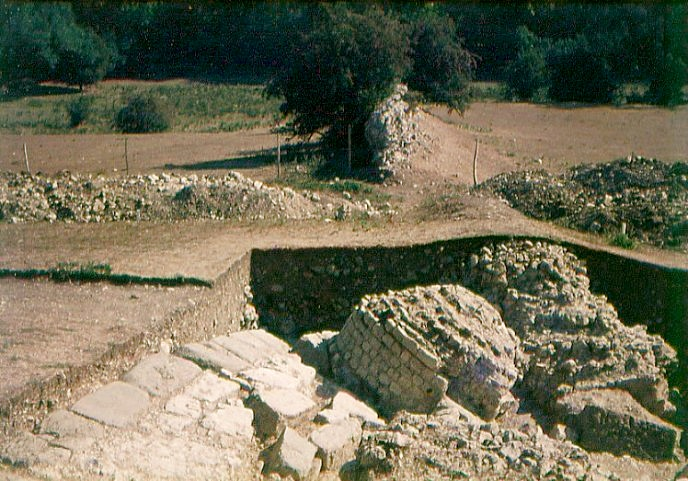 Archaeological excavations of the East Gate of Portus Lemanis in 1976. Excavations of the site were carried out between 1976 and 1978. Portus Lemanis is also known as Stutfall Castle.